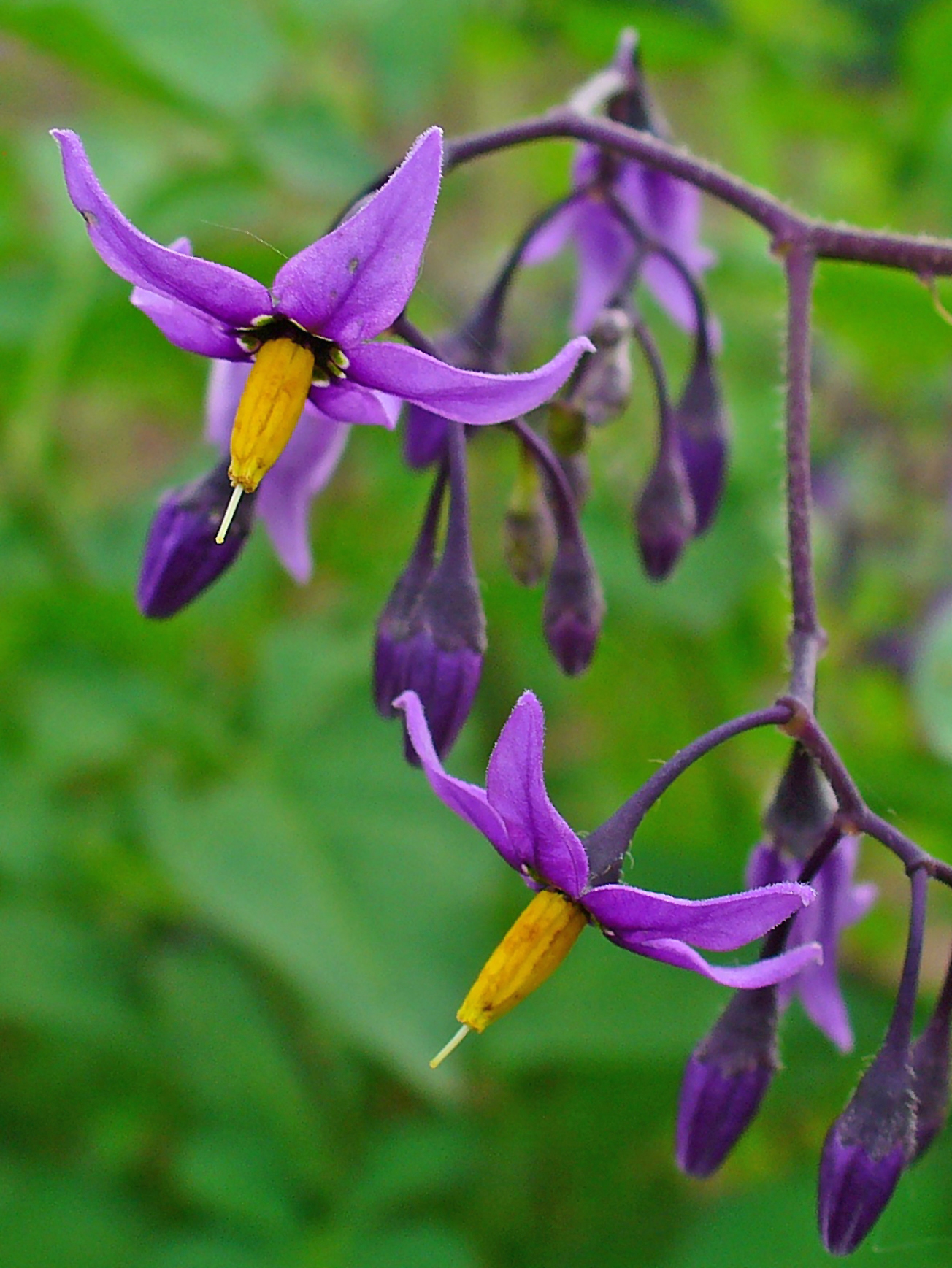 Solanum dulcamara, Solanaceae; Bittersweet, flowers.